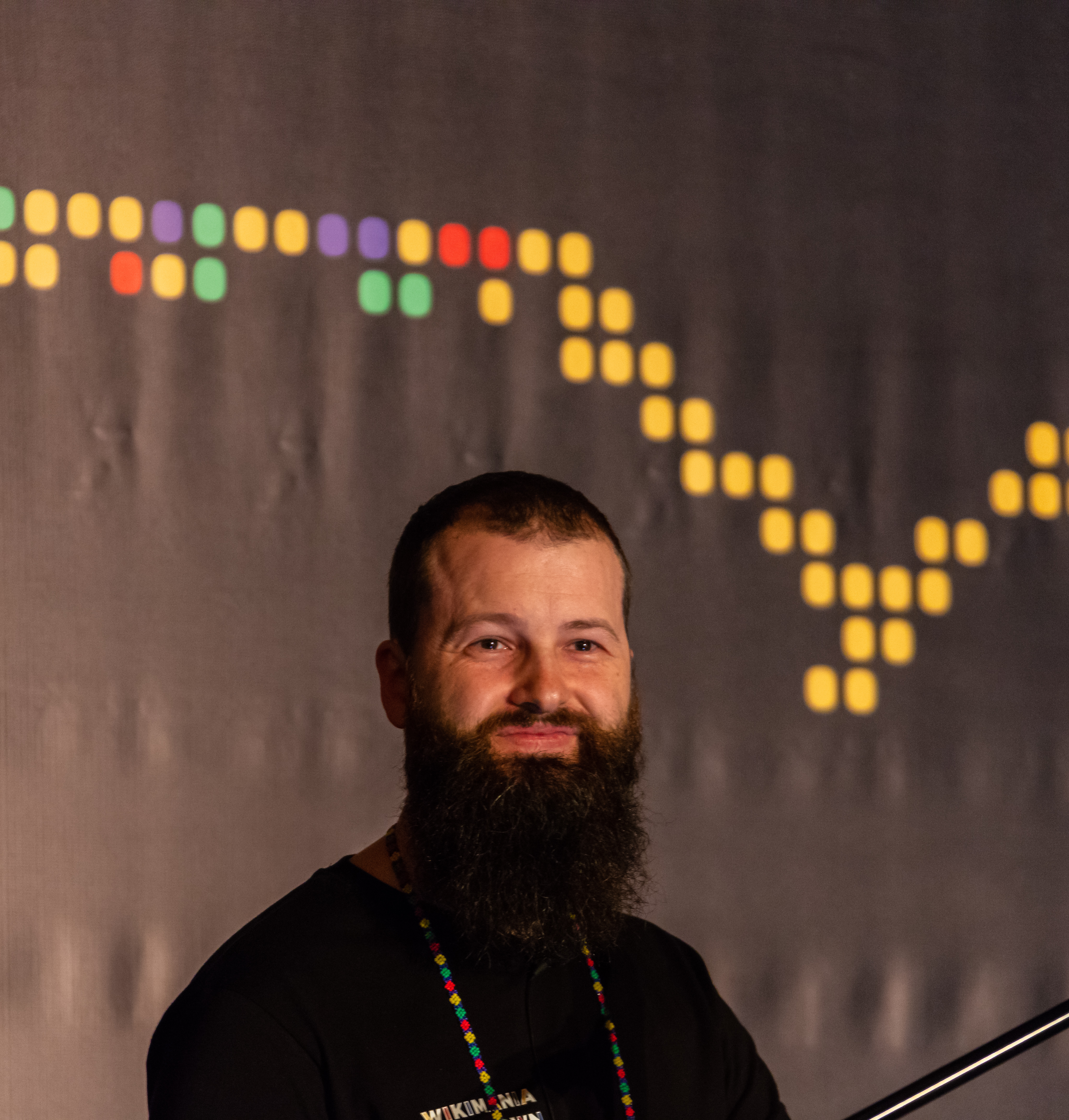 Douglas Scott, Wikimania, Cape Town, South Africa